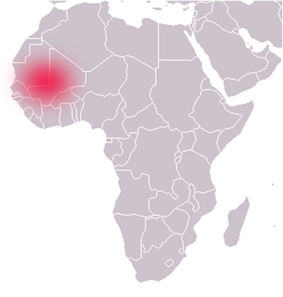 Location of the Ghana Empire in Africa